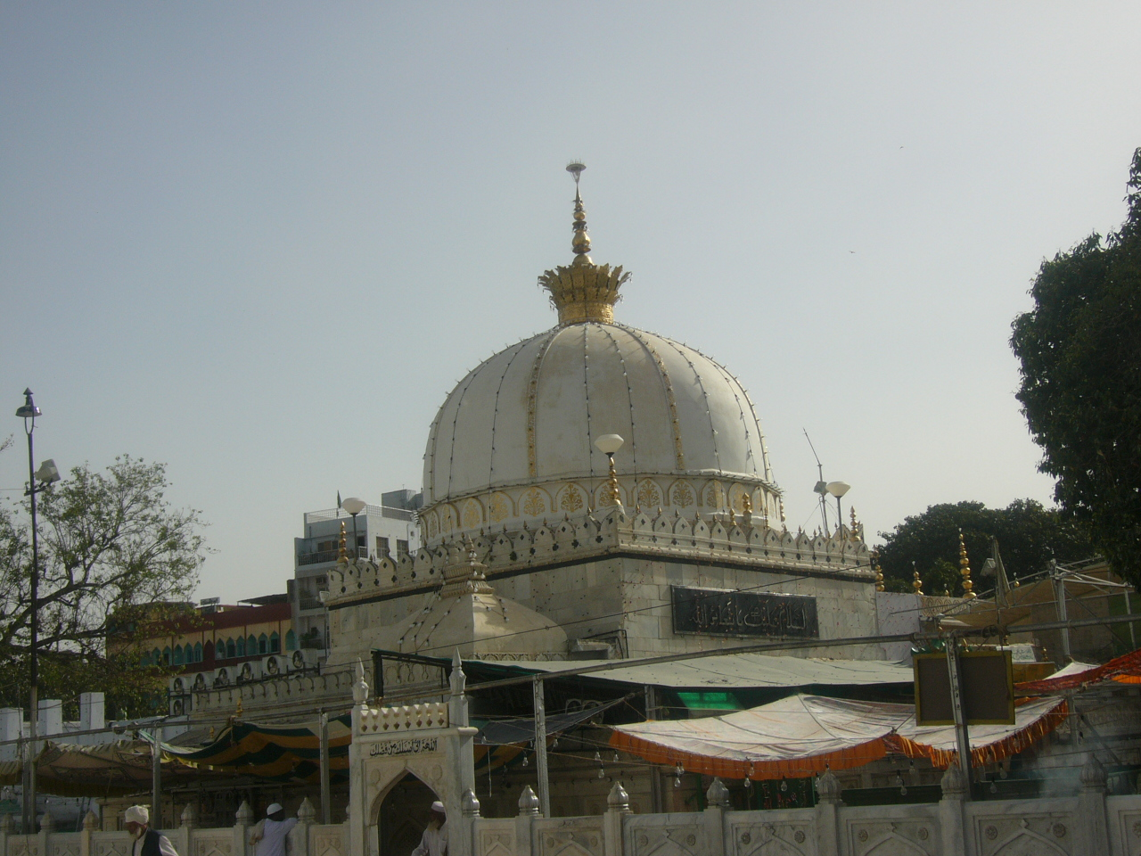 Dargah of Sufi saint Moinuddin Chishti Ajmer India